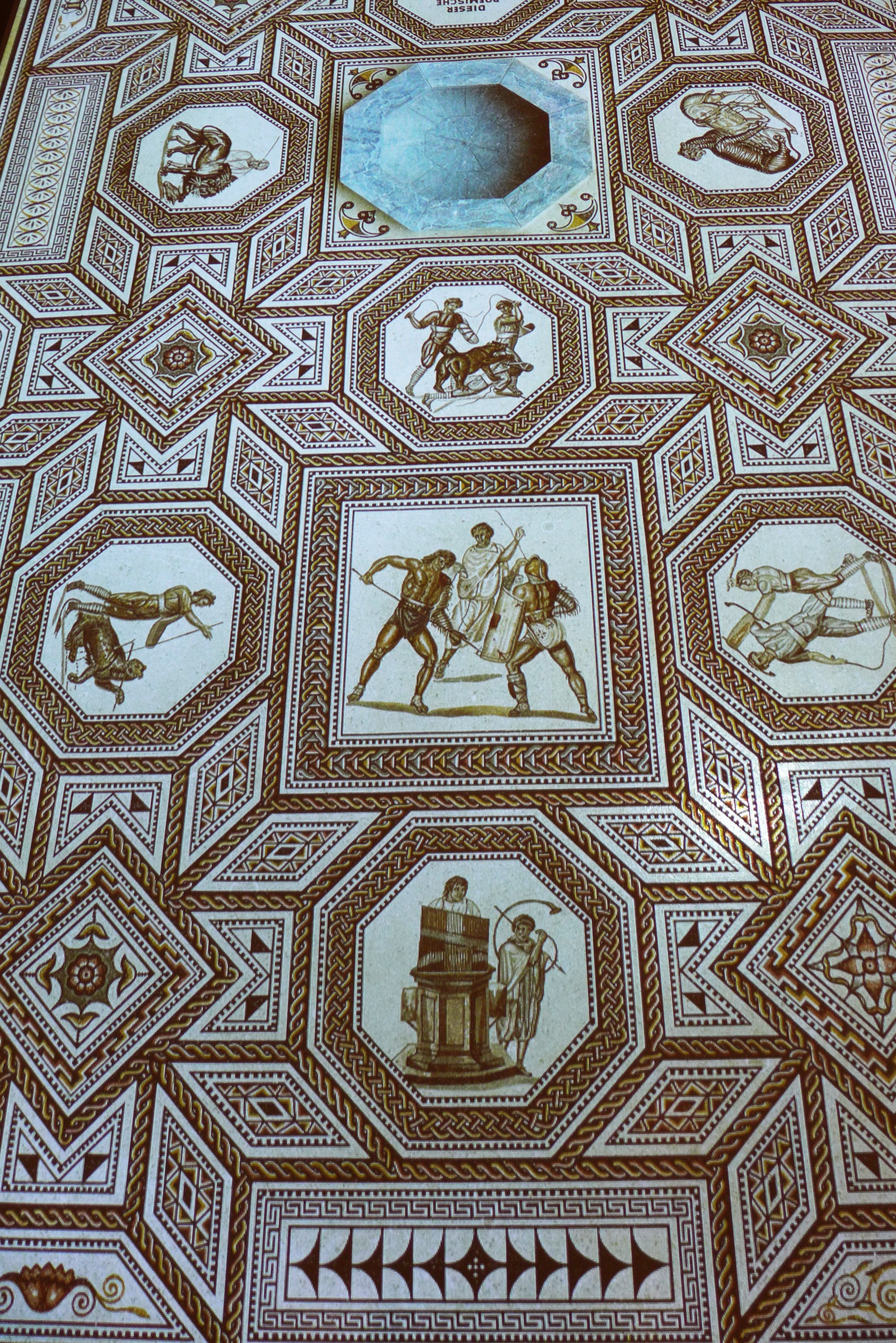 Fußbodenmosaik der römischen Villa in Nennig